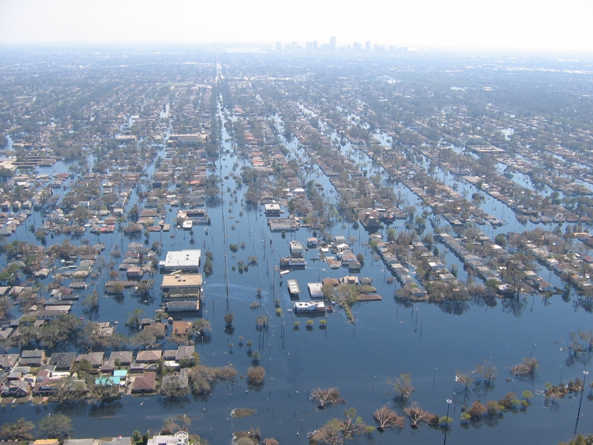 Views of inundated areas in New Orleans following breaking of the levees surrounding the city as the result of Hurricane Katrina. New Orleans, Louisiana.